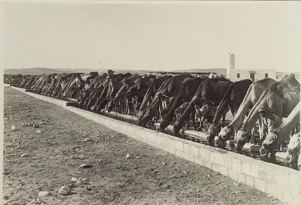 Asaluj watering, 1916.